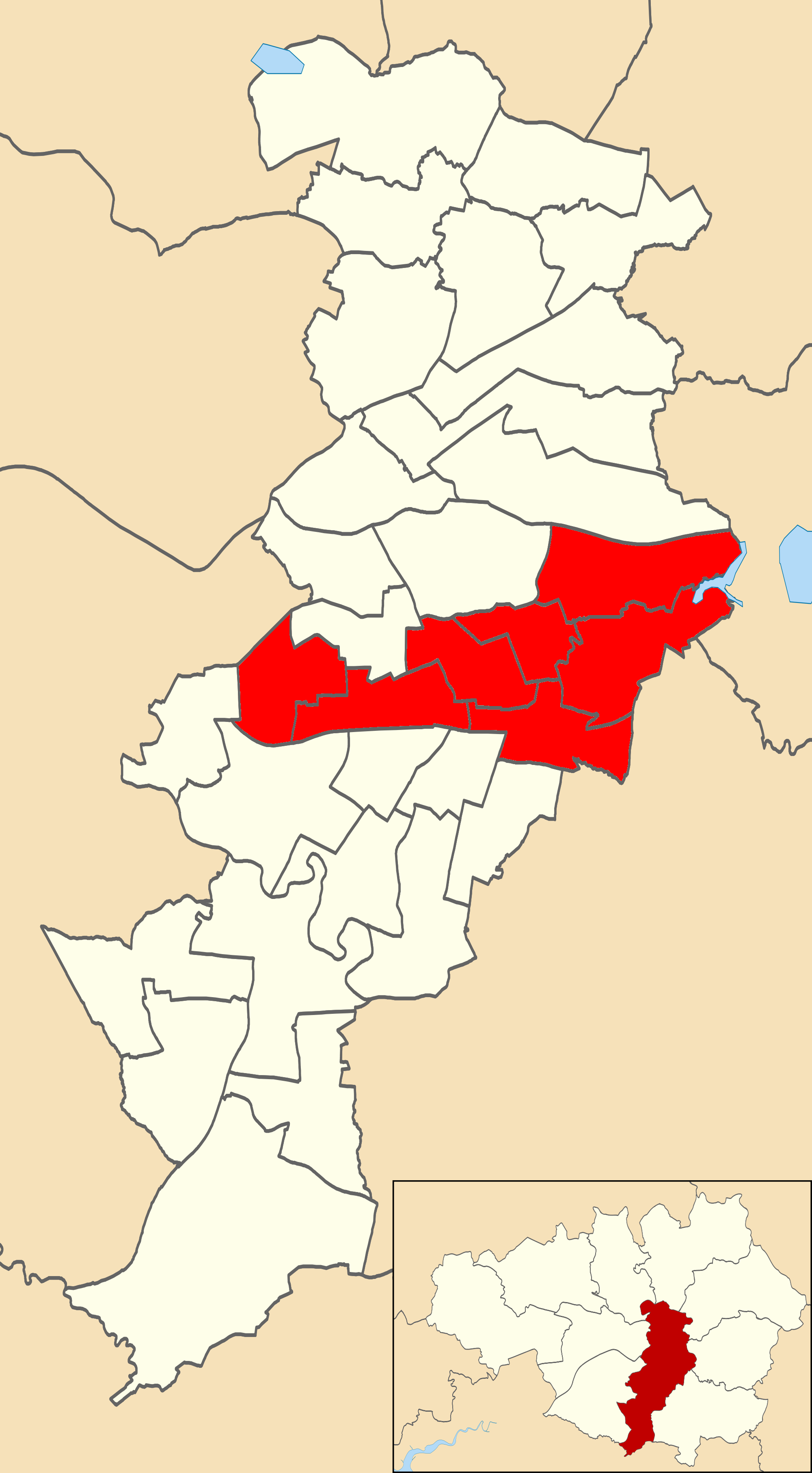 Map showing location of Manchester Gorton (UK Parliament constituency) within Manchester City Council.